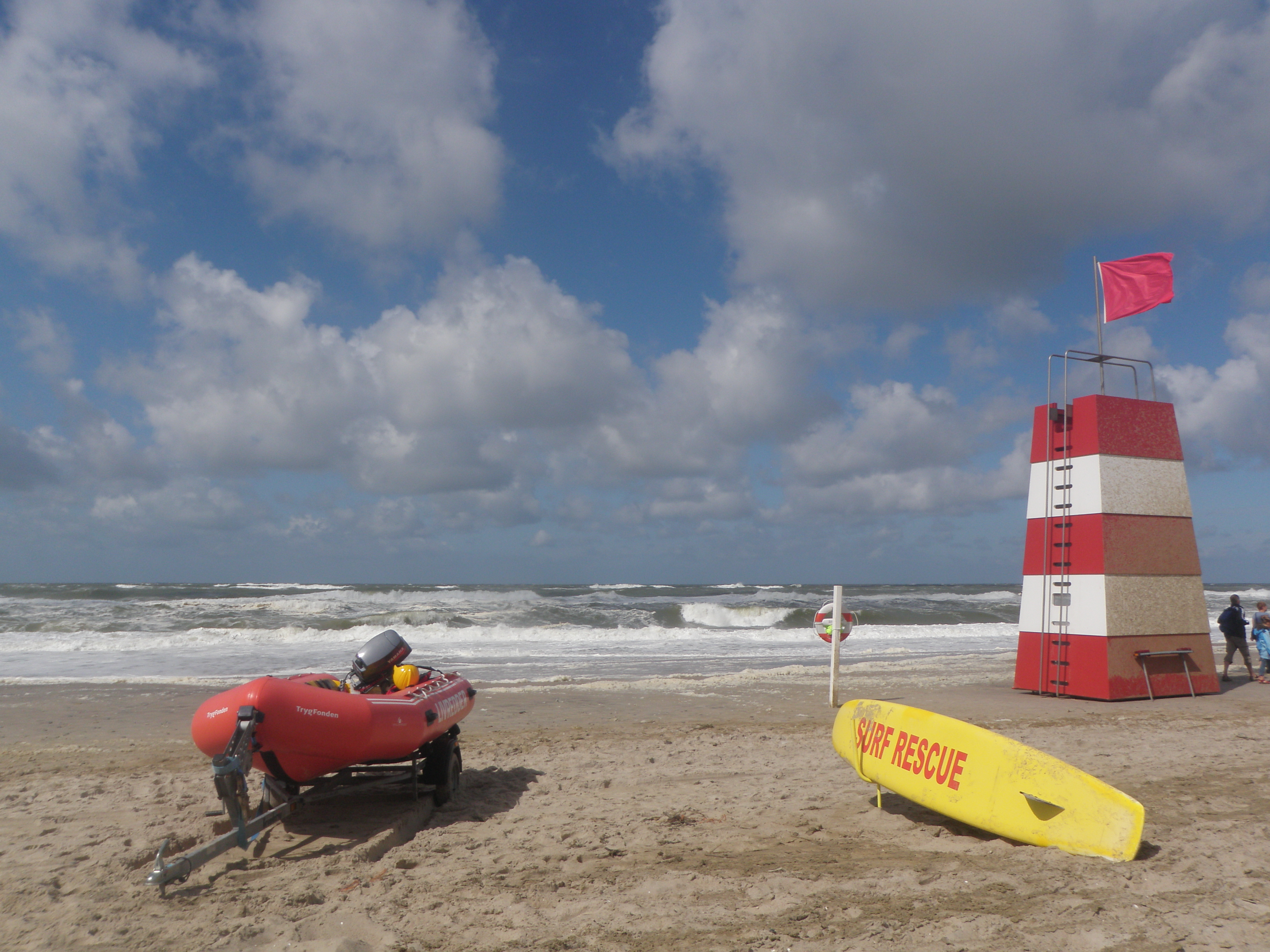 A lifeguard tower on a windy day. Surf Life Saving Denmark (TrygFonden Kystlivredning) at Søndervig Beach on the westcoast of Jutland.